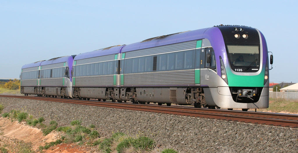 V/Line VLocity train at Lara Victoria Australia